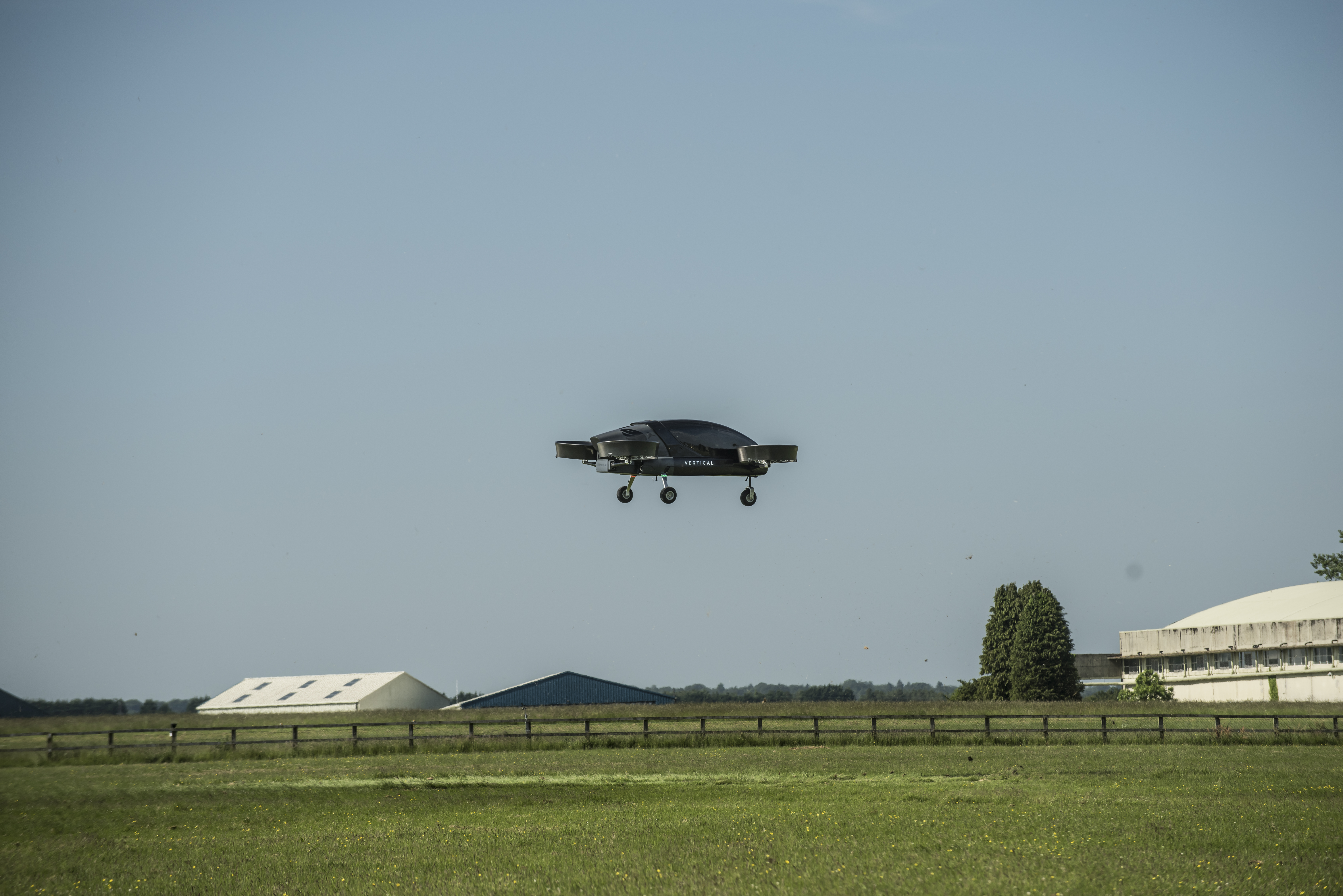 Vertical Aerospace's Proof of Concept eVTOL aircraft takes flight for the first time in 2018